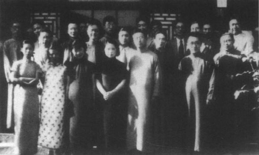 Hu Shih (1st right, front row), Gu Jiegang (2nd right, front row), Xu Fang (4th right, front row), Wei Jiangong (1st right, 2nd row), Luo Changpei (2nd left, 2nd row) and others in Peking, 1936